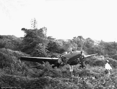 Remains of a Nakajima J1N1 Gekko (Allied code name "Irving") night fighter aircraft in the Rabaul/Gazelle peninsula area in September 1945.